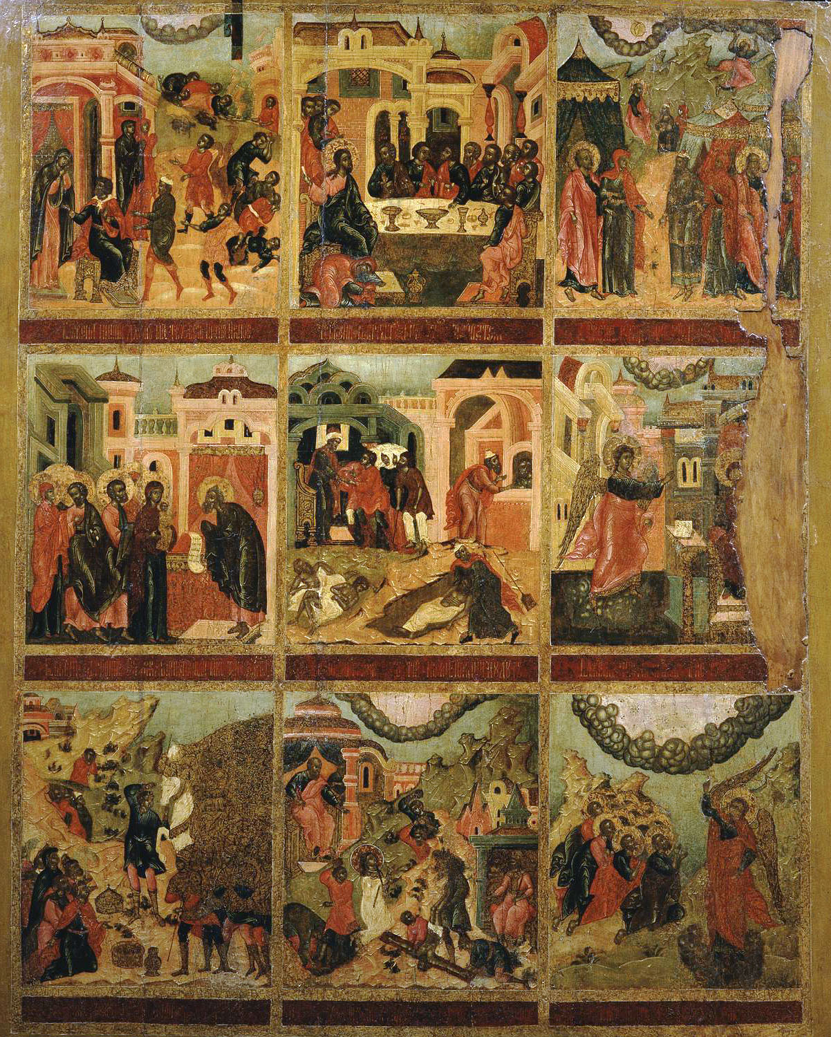 Beatitudes